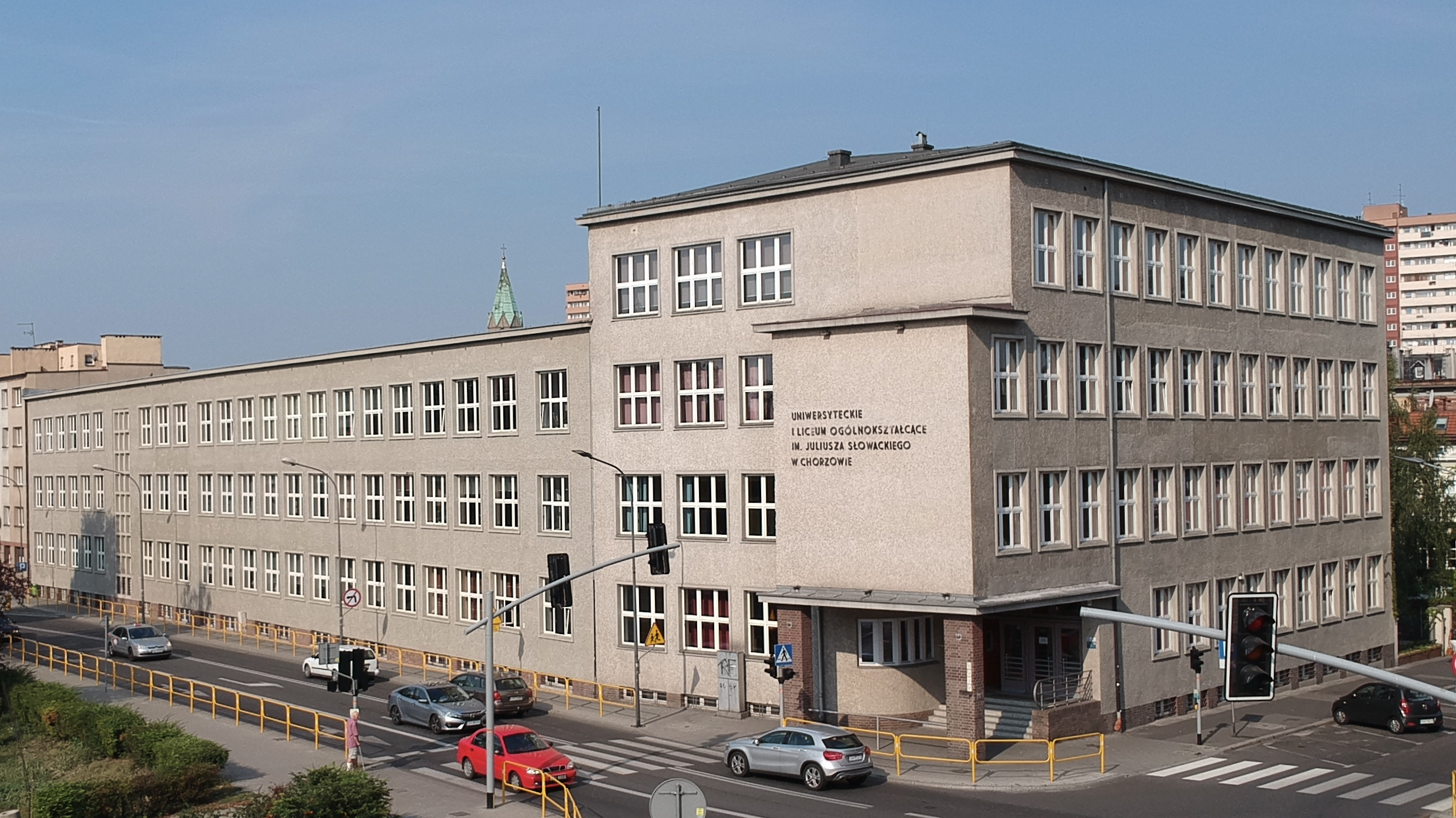 High School J.Słowacki building. Chorzów (Upper Silesia), Dąbrowskiego str.